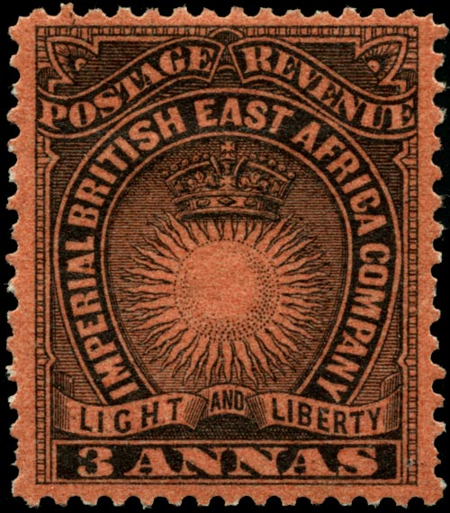 British East Africa 3-anna stamp of 1890